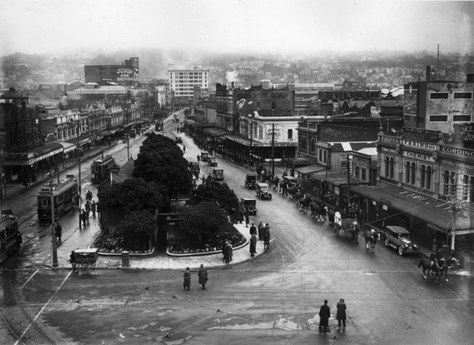 Looking down Courtenay Place, Wellington, from Cambridge Terrace. A parade of draught horses walk down one side of the street and trams travel down the other side. A number of businesses are visible, including: Cording - Books and Stationary; FB King - Chemist; F Boffa - Tobacconist. Also visible are the public lavatories in the centre of the photograph. Taken by an unknown photographer circa 1928.